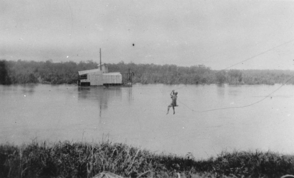 Gold mining dredge on the Palmer River in Queensland Flying fox in operation for times of high water and flood.